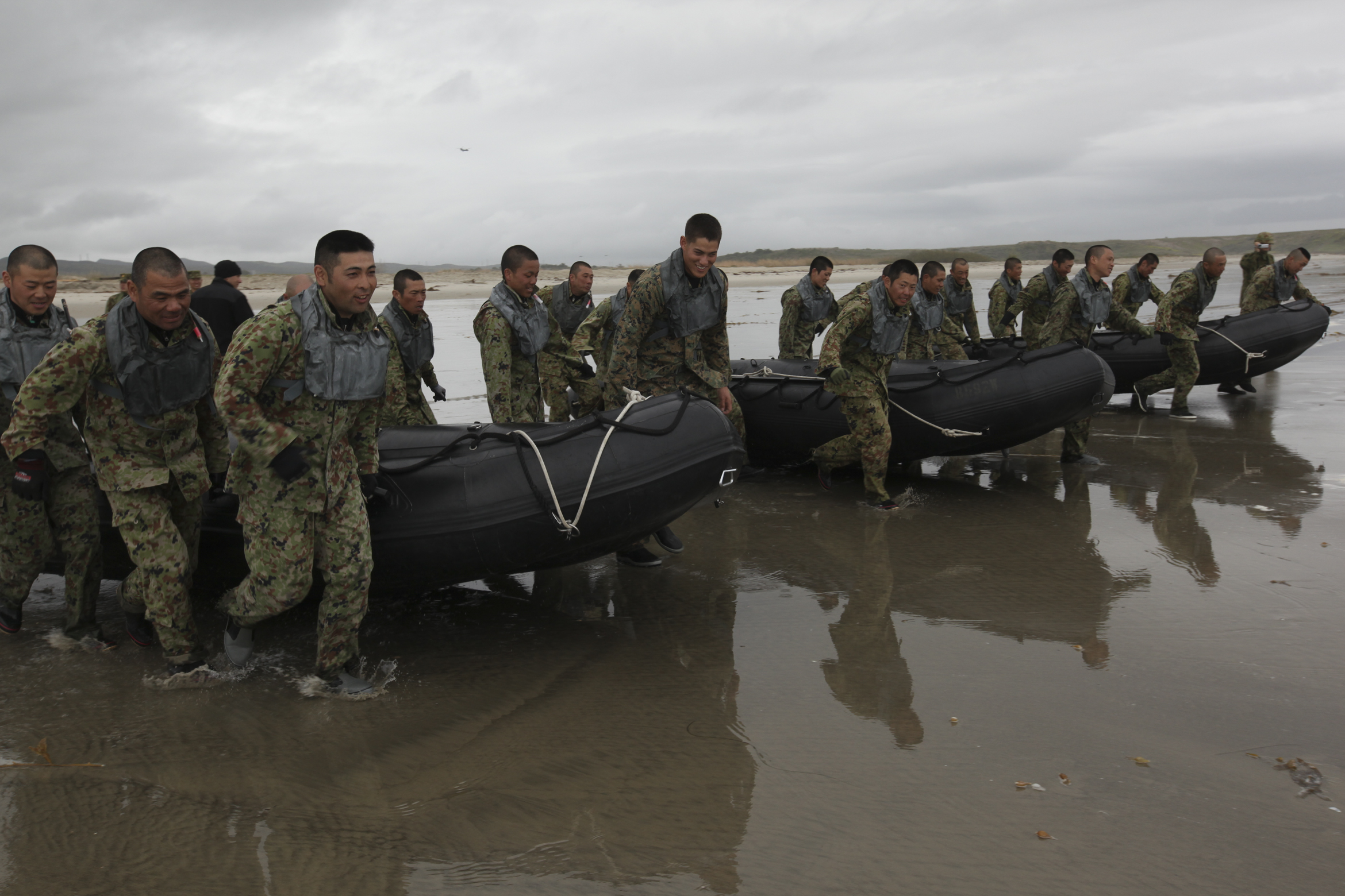 Lance Cpl. Westley Contrata (center), an interpreter with I Marine Expeditionary Force, participates in combat rubber raiding craft during Exercise Iron Fist here Feb. 16. Marines and soldiers with the Japanese Ground Self Defense Force, Western Army Infantry Regiment, are participating in the bilateral training to advance their amphibious knowledge.